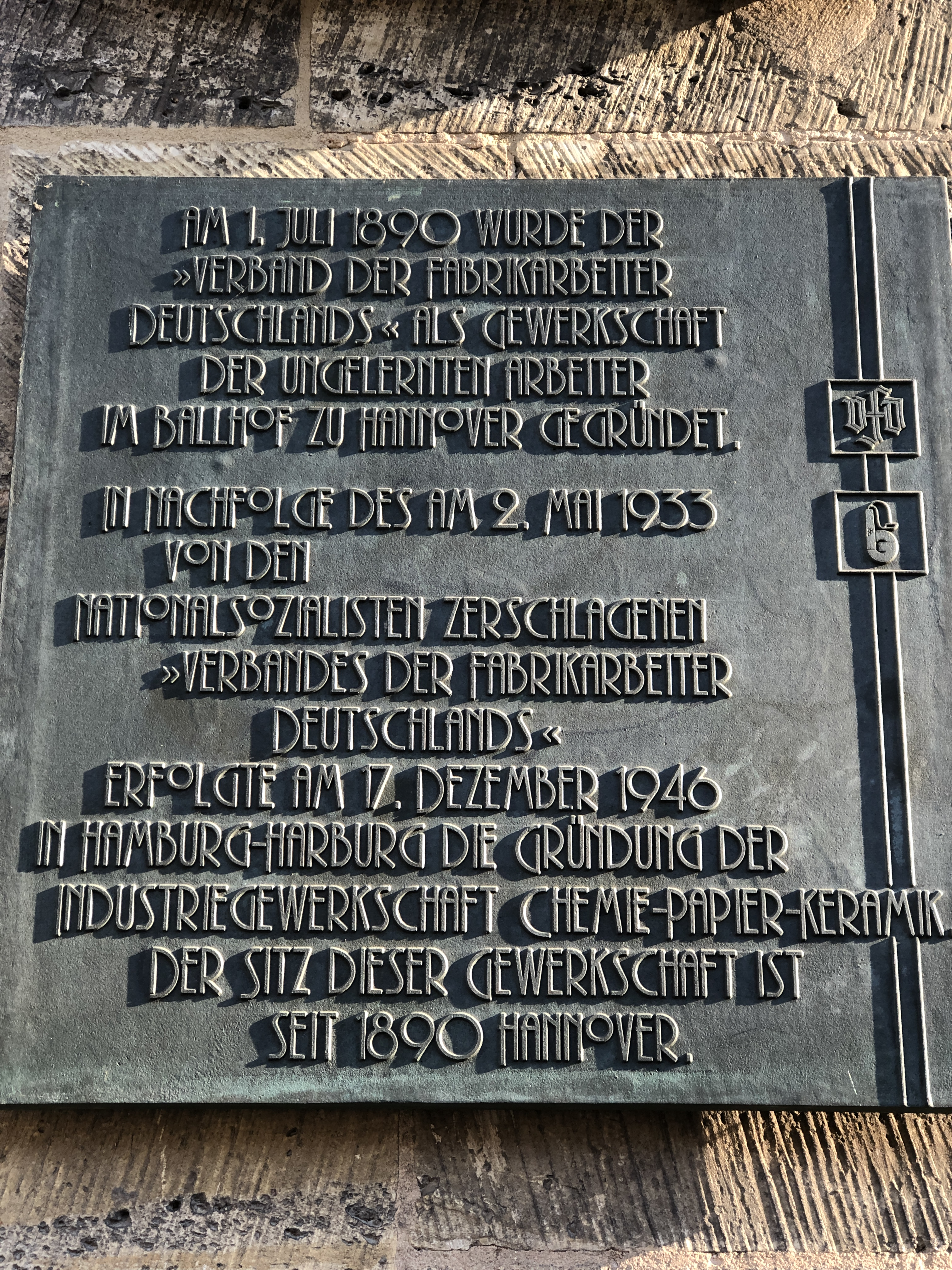 Inscription of the commemorative plaque (literal translation): On 1 July 1890, the "Verband der Fabrikarbeiter Deutschlands" (foundation of the Association of German Factory Workers) was founded as a union of unskilled workers at the Ballhof in Hanover. On 17 December 1946, the industrial trade union Chemie-Papier-Keramik was founded in Hamburg-Harburg as a successor to the "Verband der Fabrikarbeiter Deutschlands" (Association of German Factory Workers), which had been crushed by the National Socialists on 2 May 1933. This trade union has been based in Hanover since 1890.